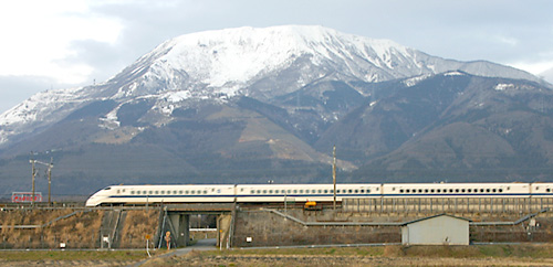 Mt. Ibuki and bullet train in Maibara, Shiga, Japan. Photo by Philbert Ono.